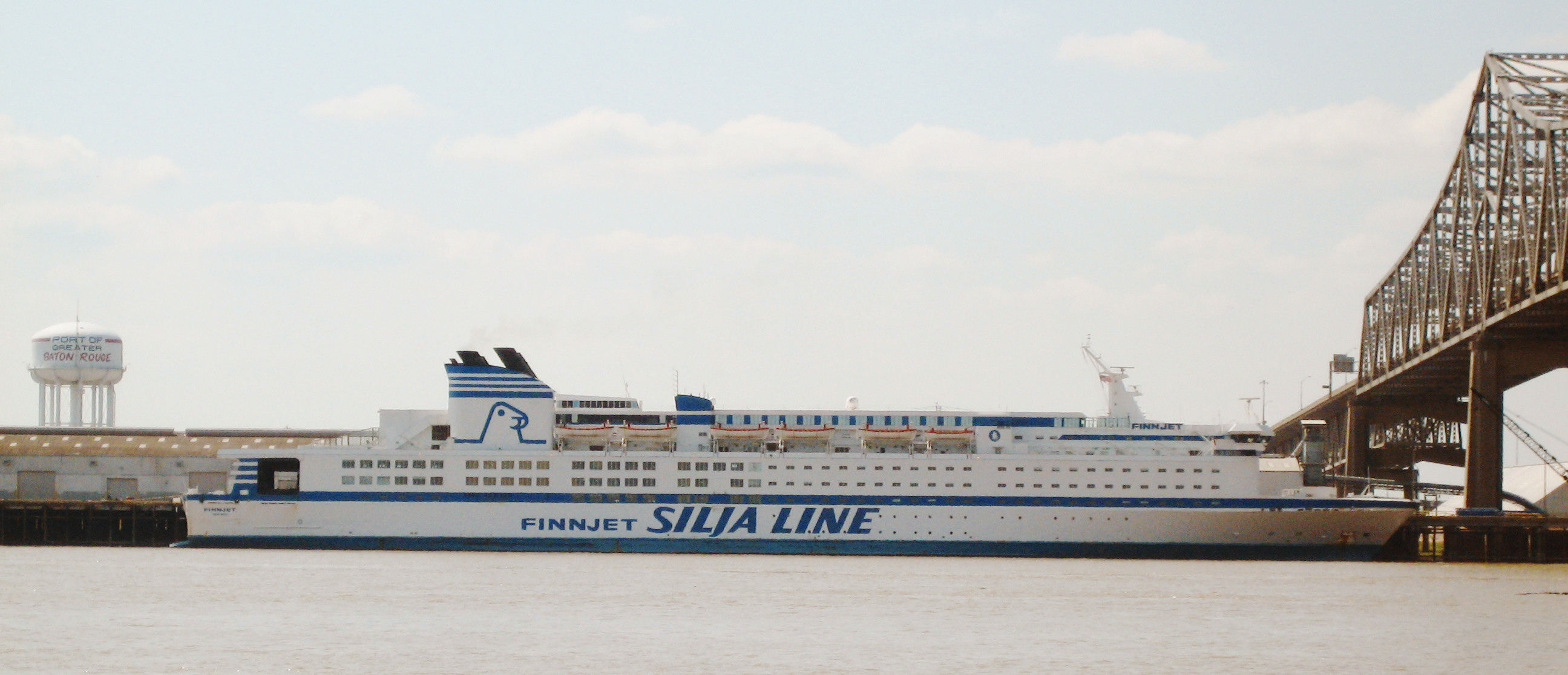 GTS Finnjet docked on the banks of the Mississippi River in Port Allen, West Baton Rouge Parish, Louisiana, USA. A part of the Horace Wilkinson Bridge on the right.